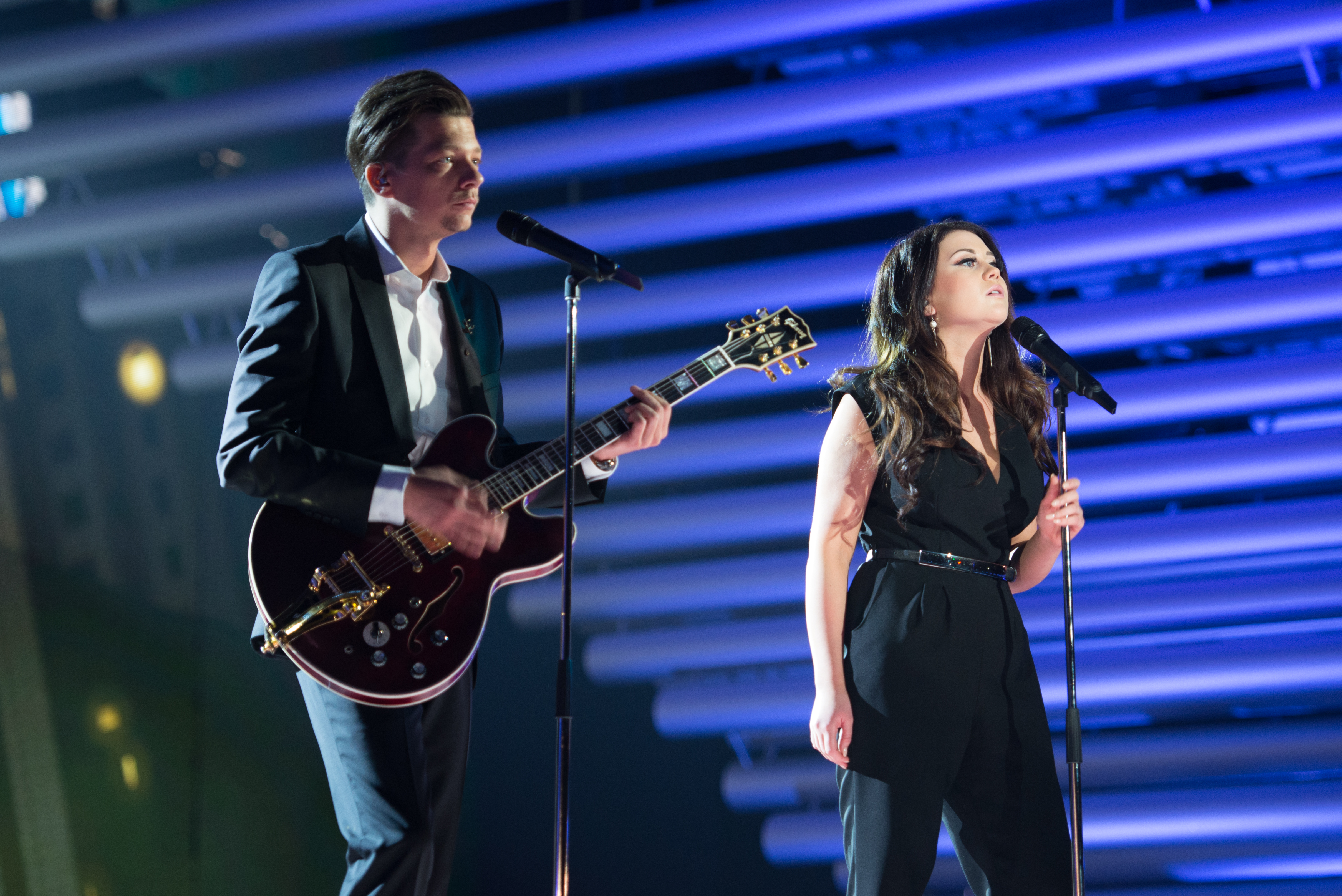 Eurovision Song Contest Vienna 2015: Elina Born & Stig Rästa